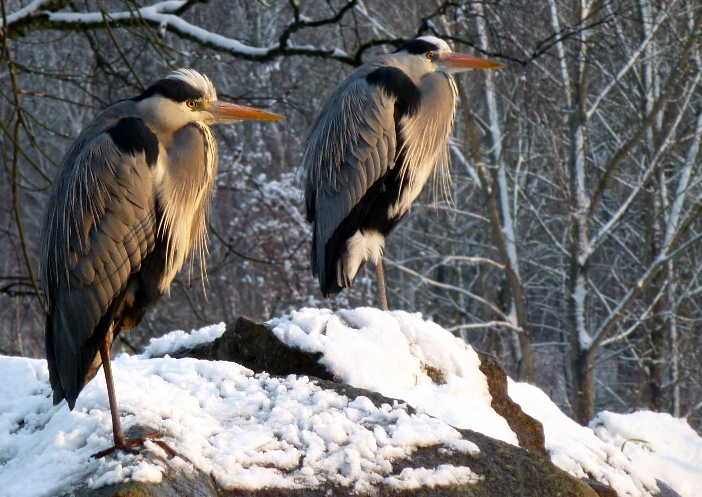 Grey Heron couple winterhabit